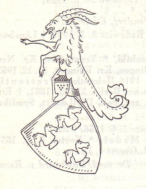 Coat of Arms of the german family von Rochow